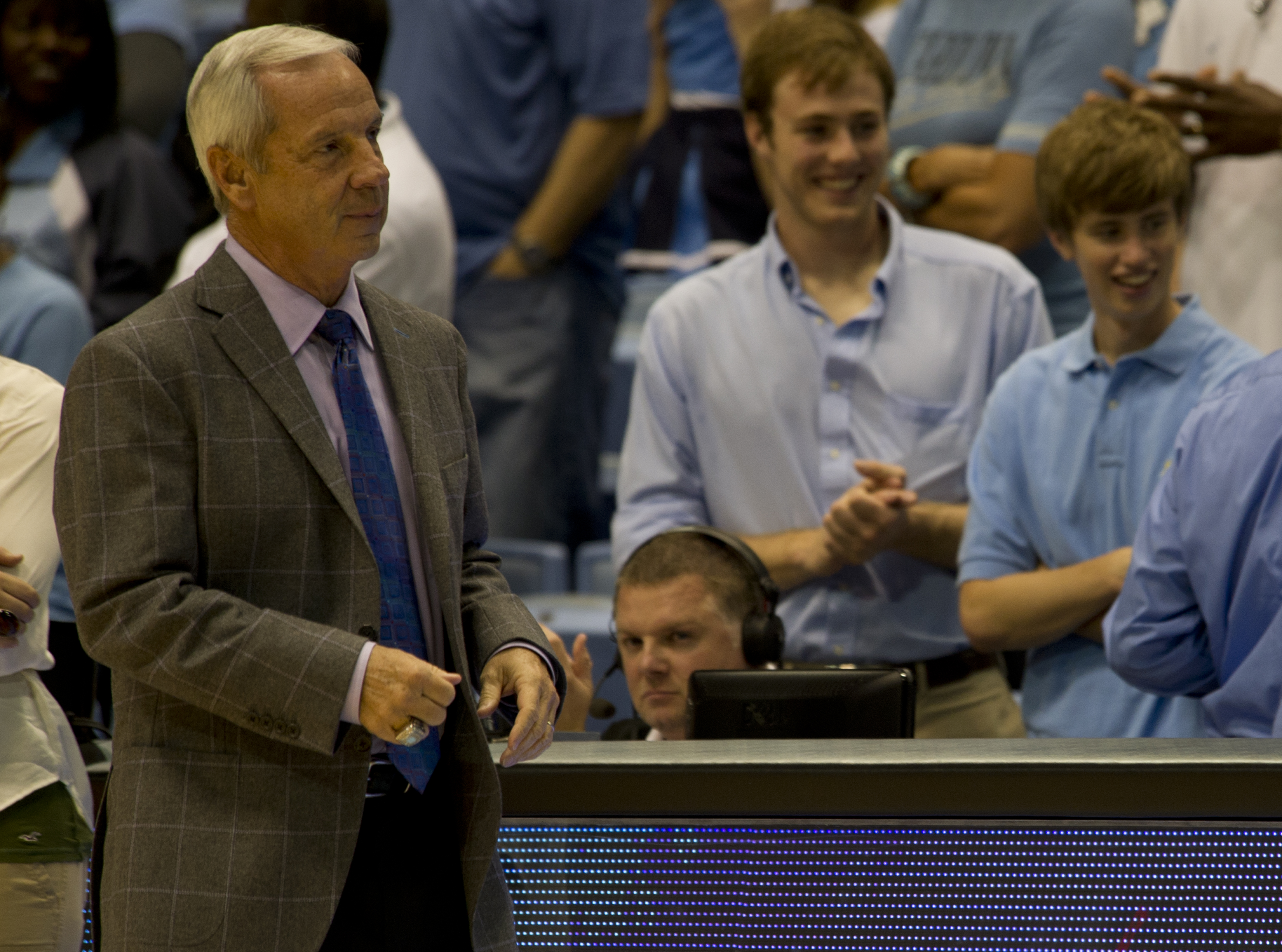 CHAPEL HILL, N.C. (Oct. 27, 2011) Roy Williams, head coach of the University of North Carolina basketball team, walks out to his team during a exhibition game in preparation for the Quicken Loans Carrier Classic basketball game. The Tar Heels will play the Michigan State University Spartans aboard the aircraft carrier USS Carl Vinson (CVN 70) on Veteran's Day, Nov. 11. (U.S. Navy photo by Mass Communication Specialist 2nd Class David Danals/Released)